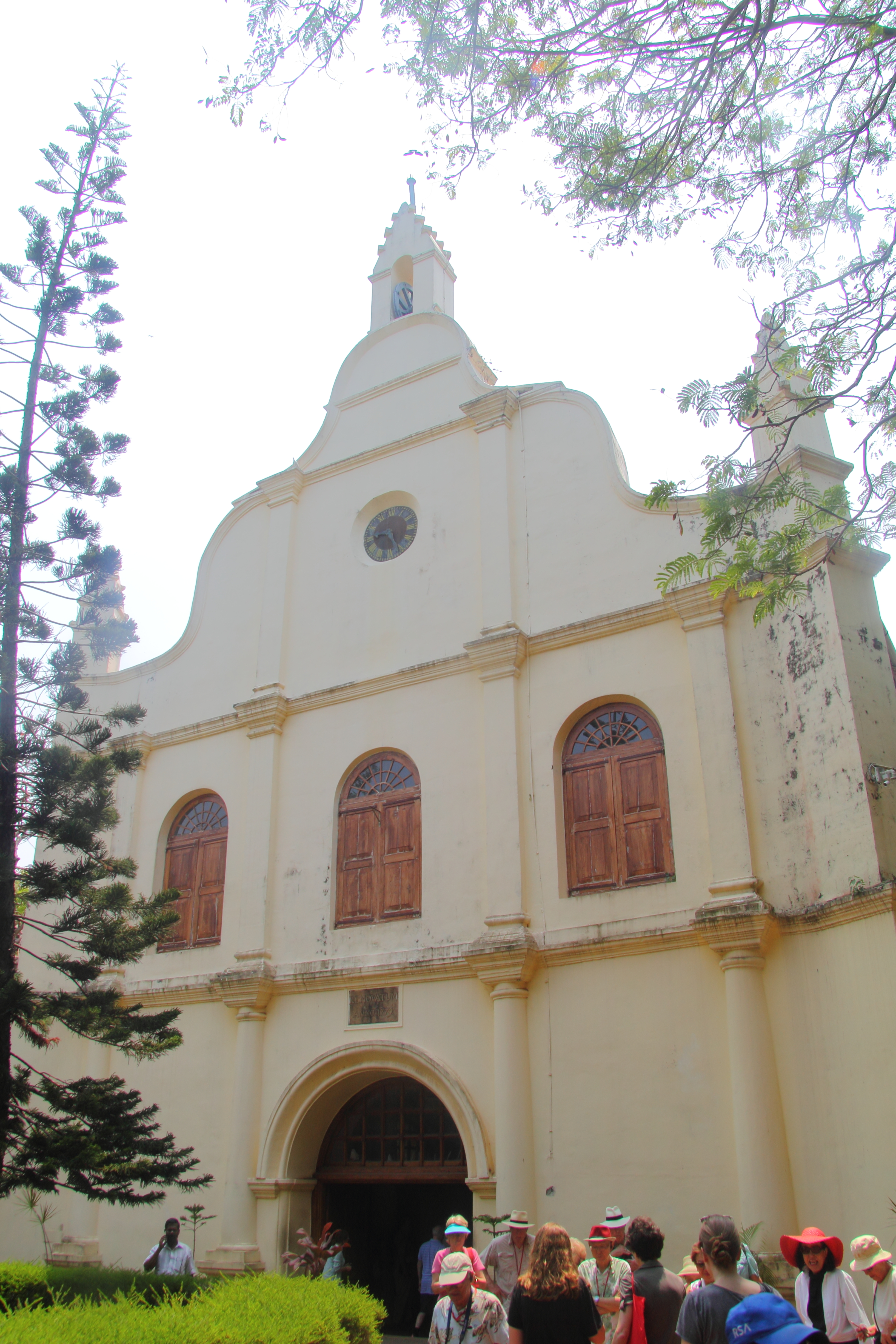 Kochi, India, en: St. Francis Church, Kochi